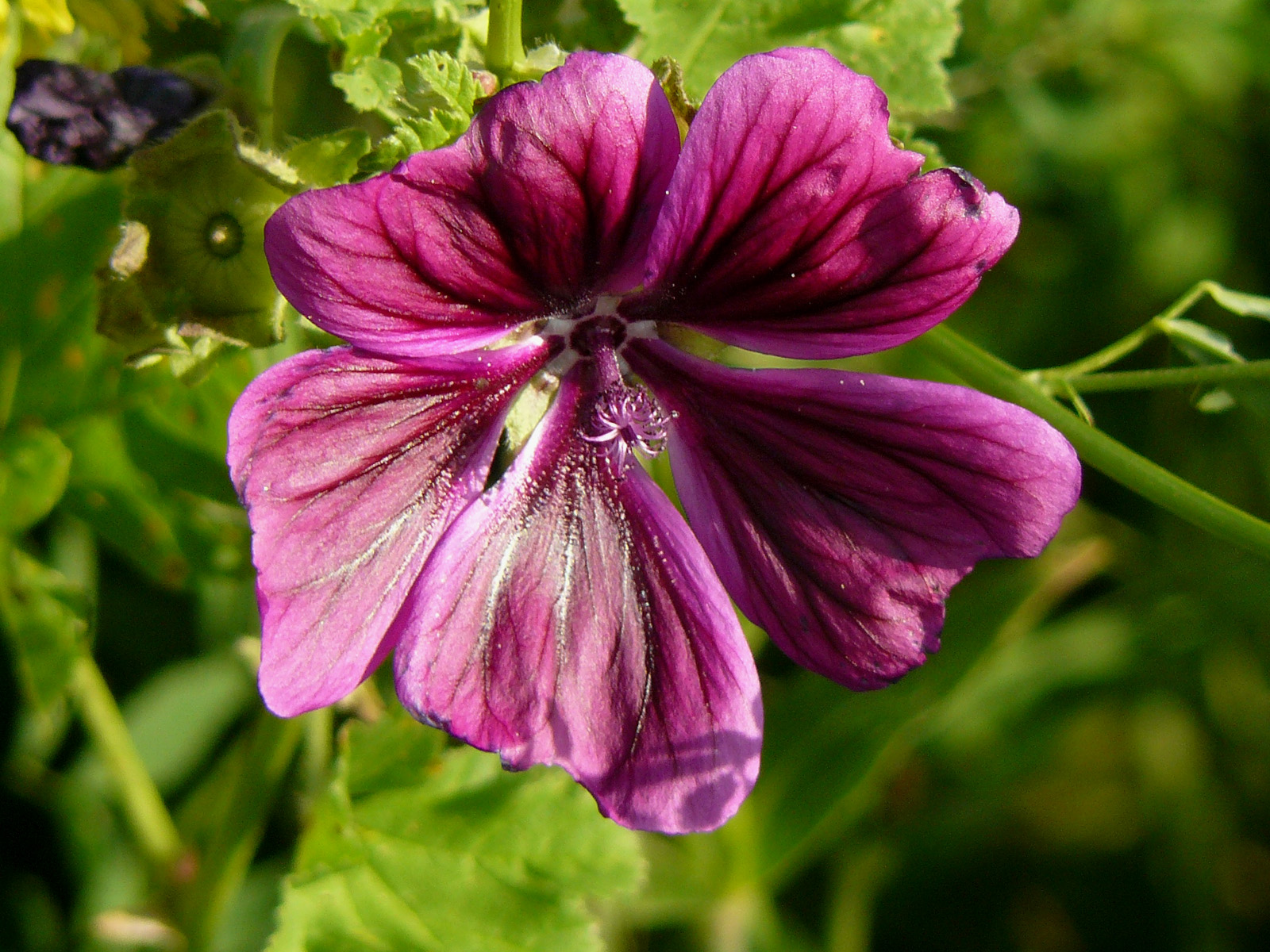 Common mallow in June